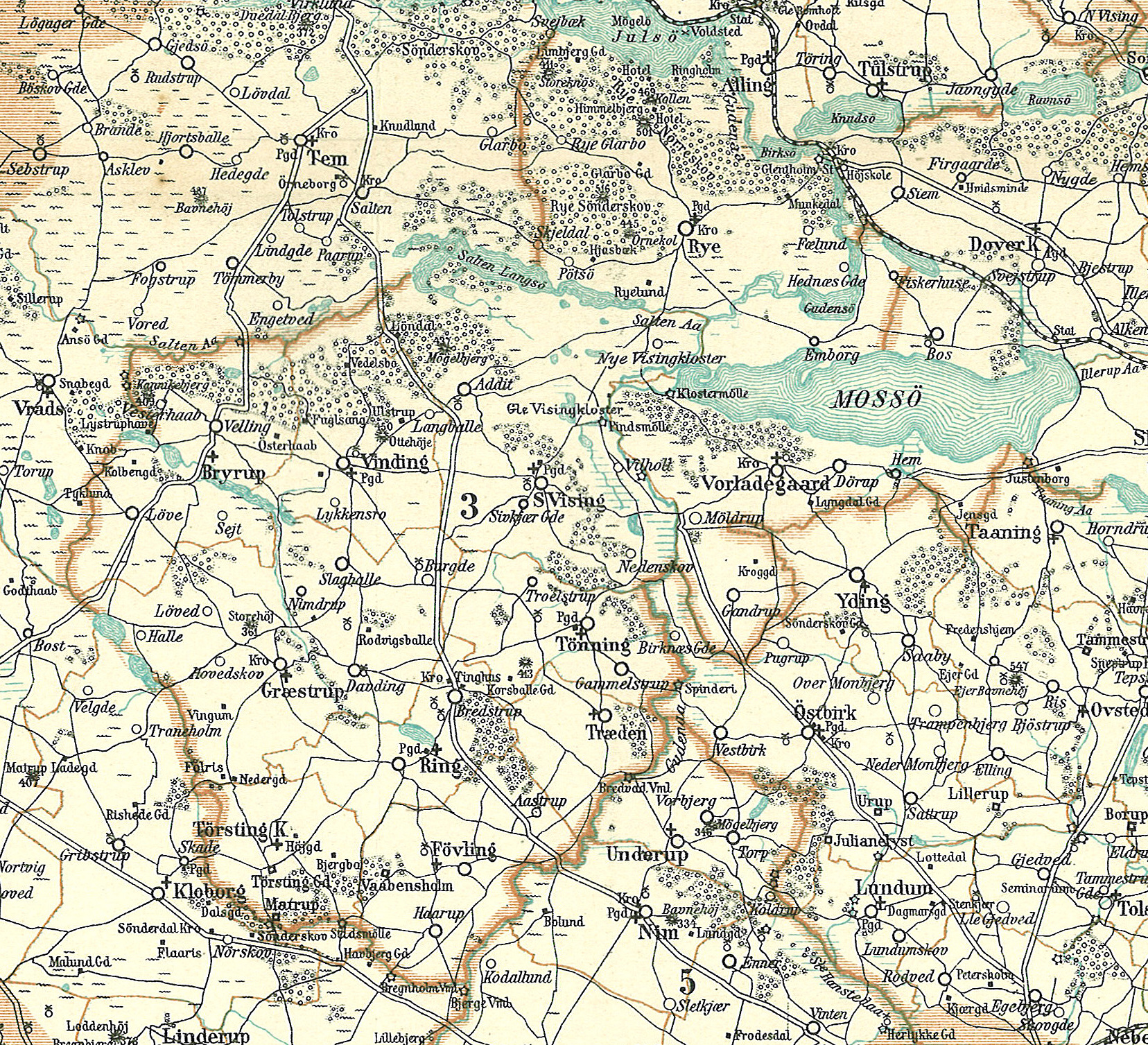 Map of Tyrsting Herred in Skanderborg County in Denmark